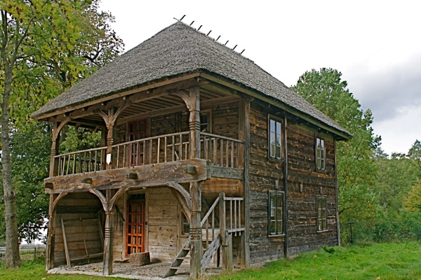 An old storehouse - built in 1783